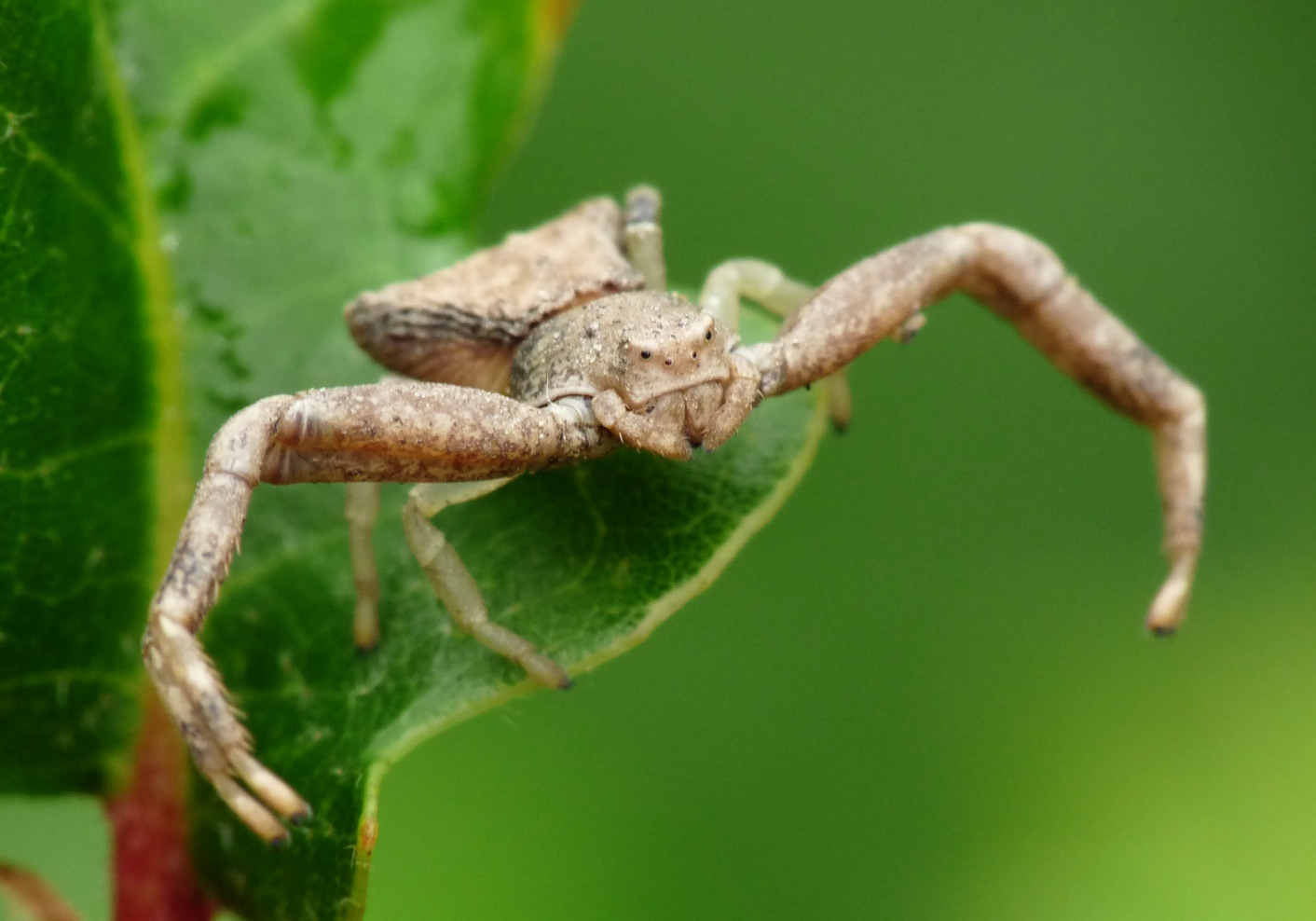 Pistius truncatus, near Livorno, Tuscany, Italy